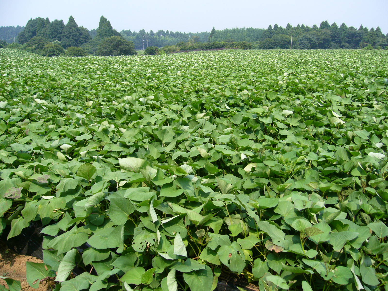 sweet-potato-field,katori-city,japan